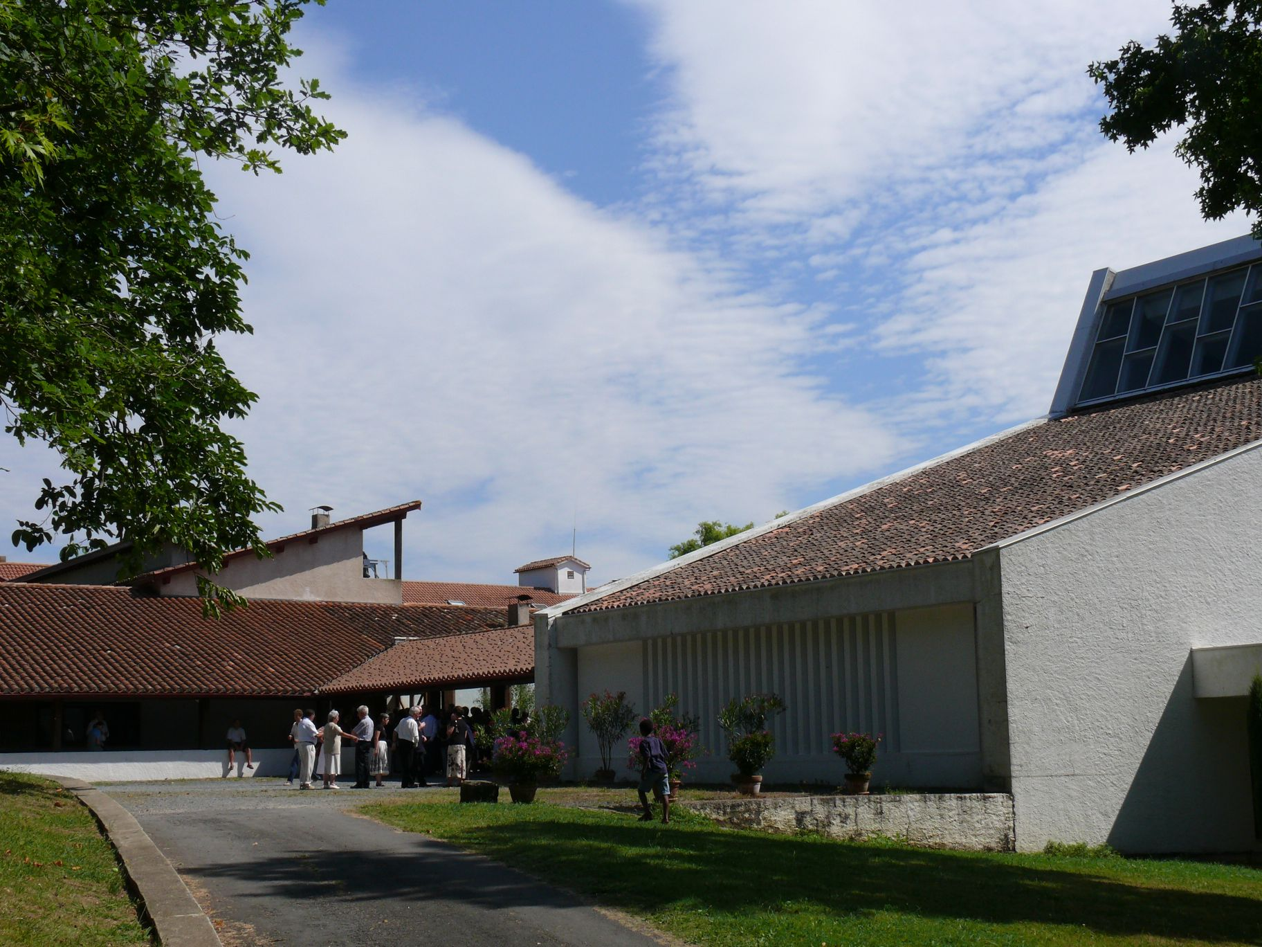 The abbaye Notre-Dame of Belloc, in Basque Country (France)